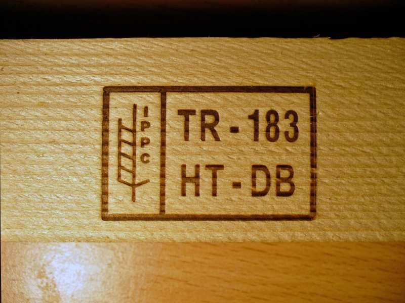 ISPM marking on a wood board, showing the wood has been heat-treated (HT) and debarked (DB). The TR indicates that the wooden item was made in Turkey.